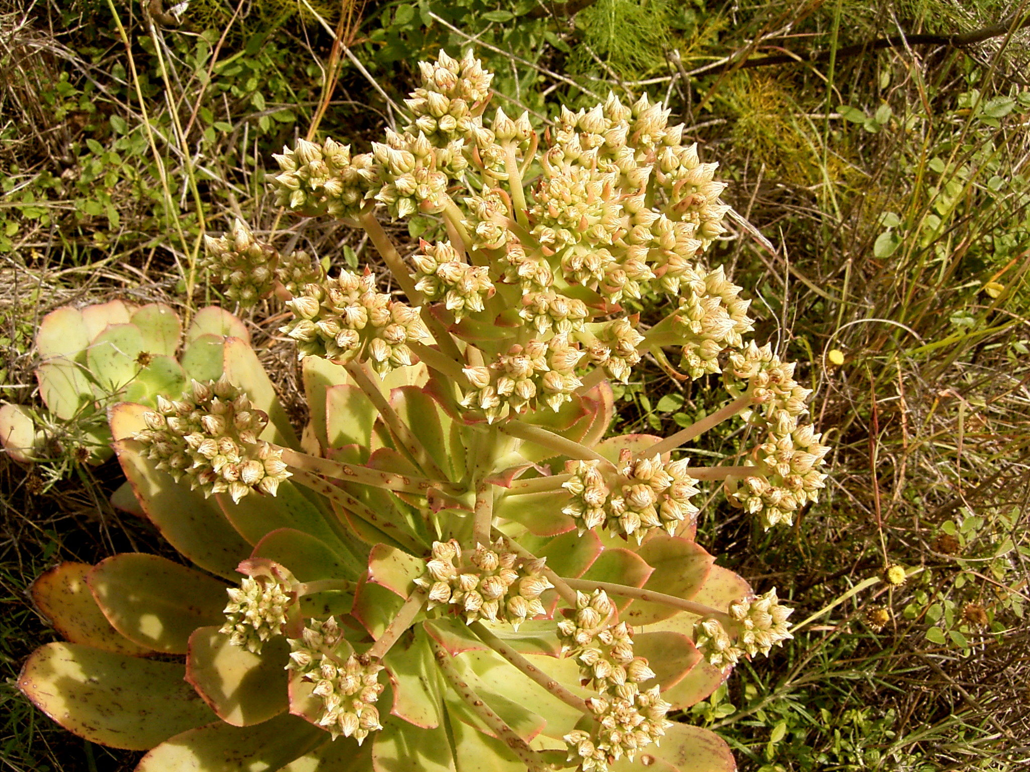 Aeonium ciliatum growing in El Paso, La Palma, Canary Islands